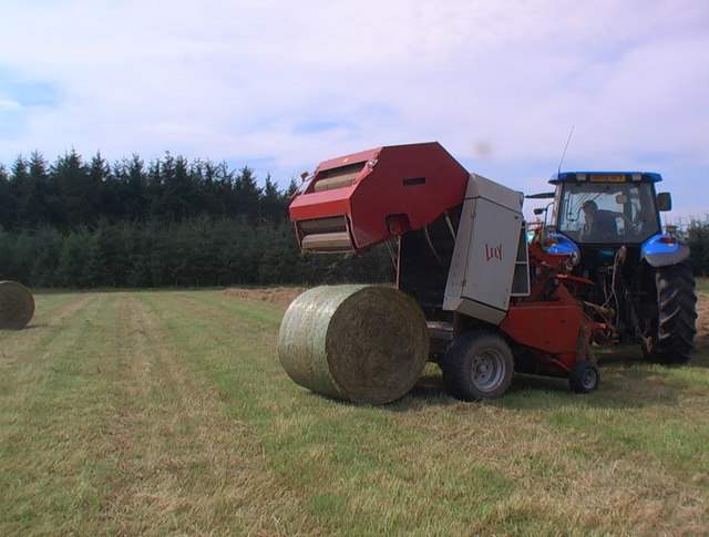 Hay-baling in progress 'Calving' a new bale.